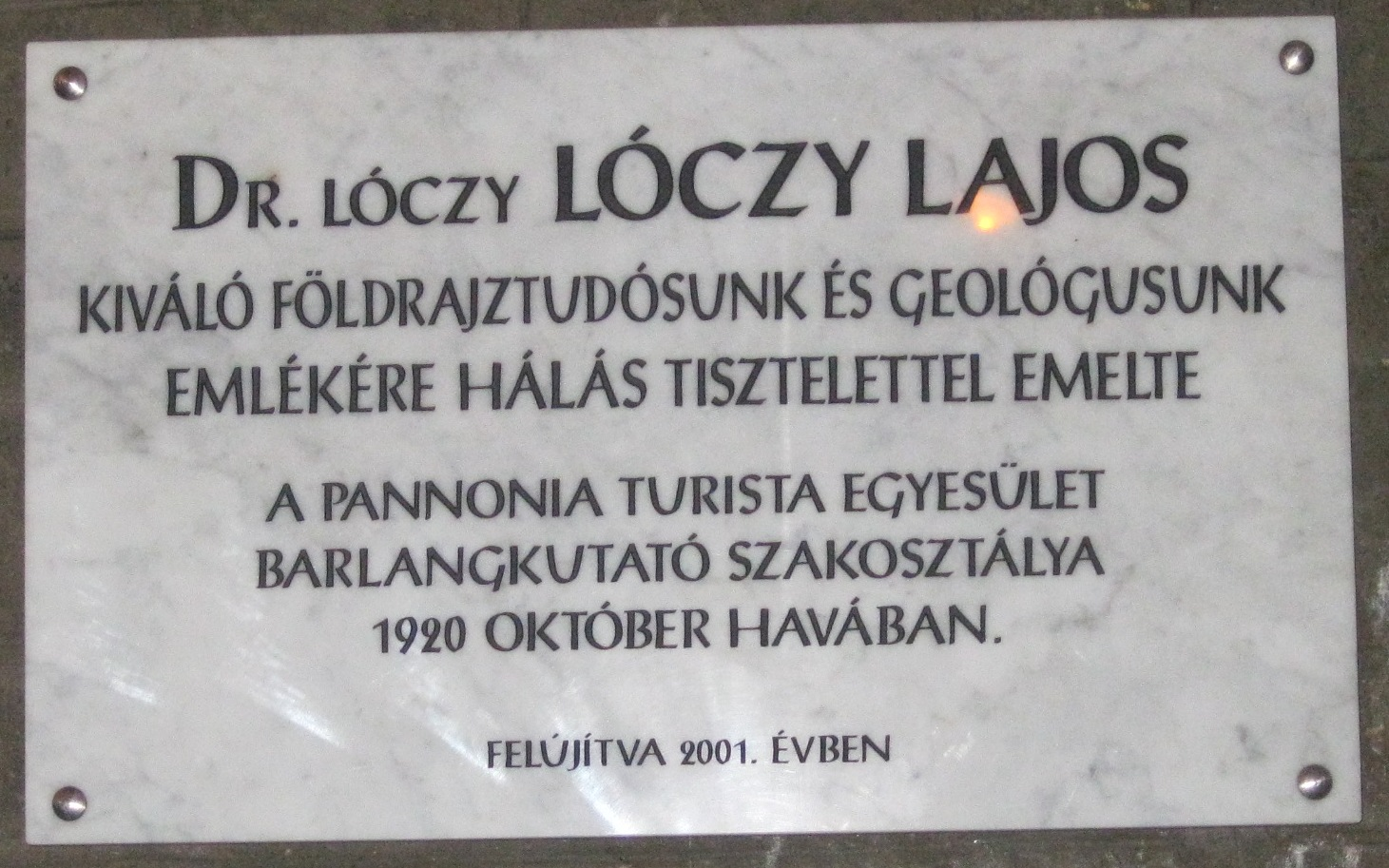 Memorial tablet of Lóczy Lajos in the Pál-Völgy Cave